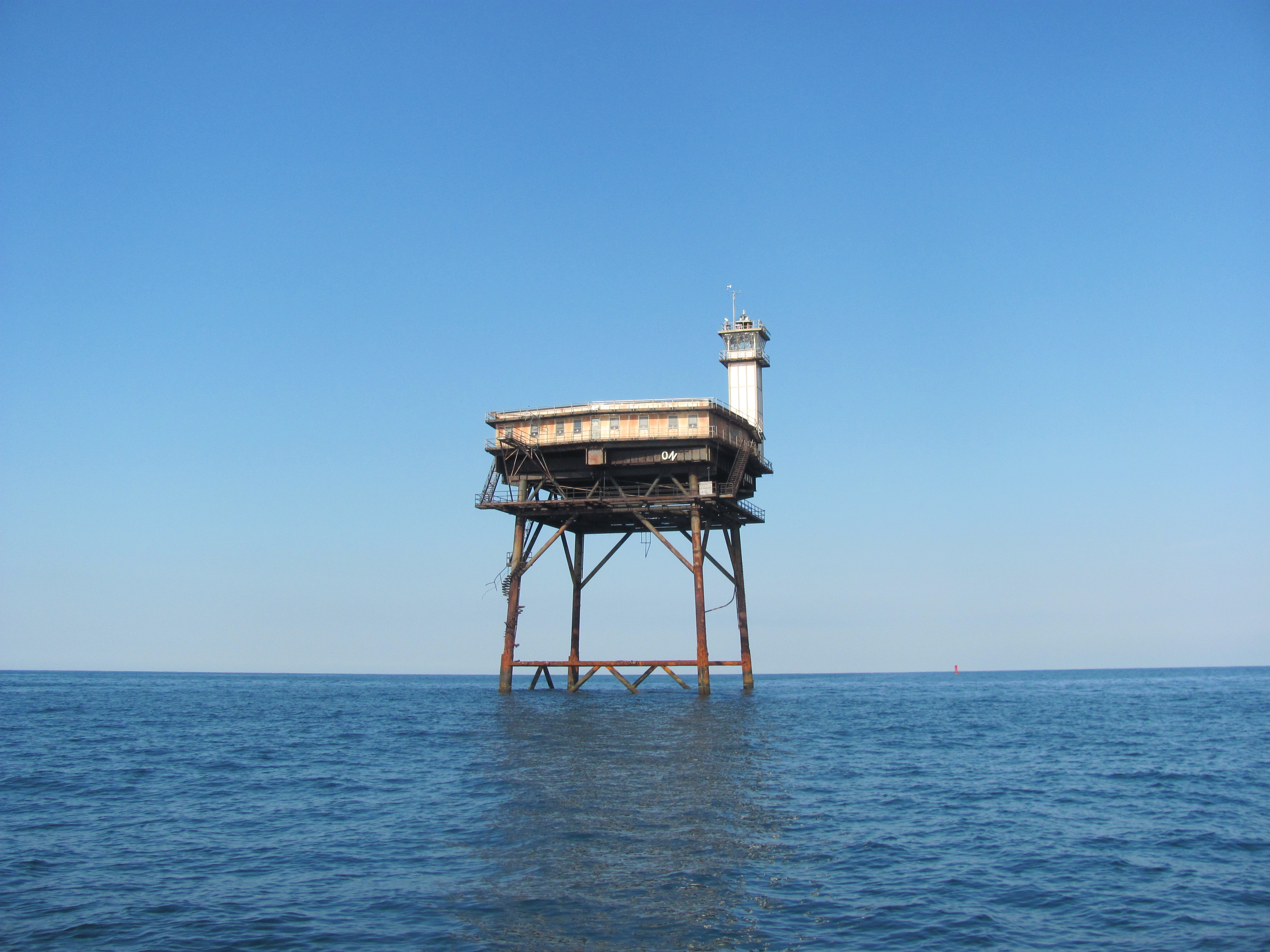 currant condition of diamond shoel light